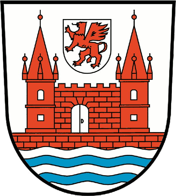 Coat of arms of Schwedt/Oder